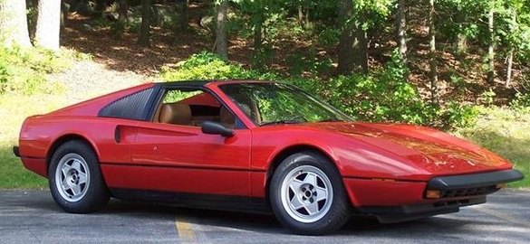 Pontiac Mera